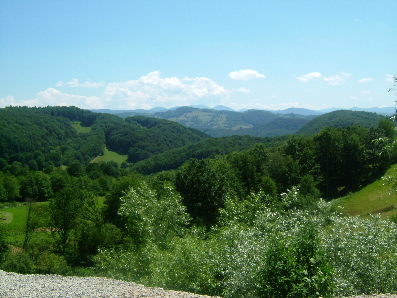 King Pass, Romania